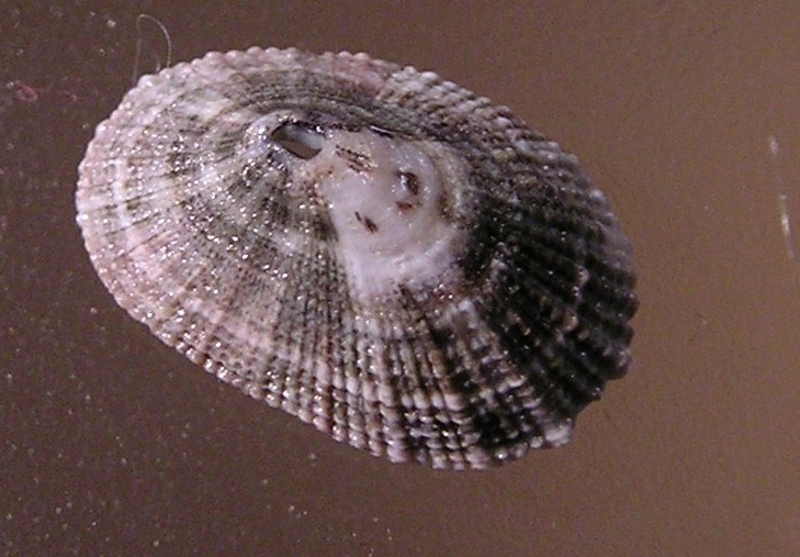 Diodora saturnalis, Carpenter, 1864; a keyhole limpet from the family Fissurellidae; Tortuga Island, Costa Rica